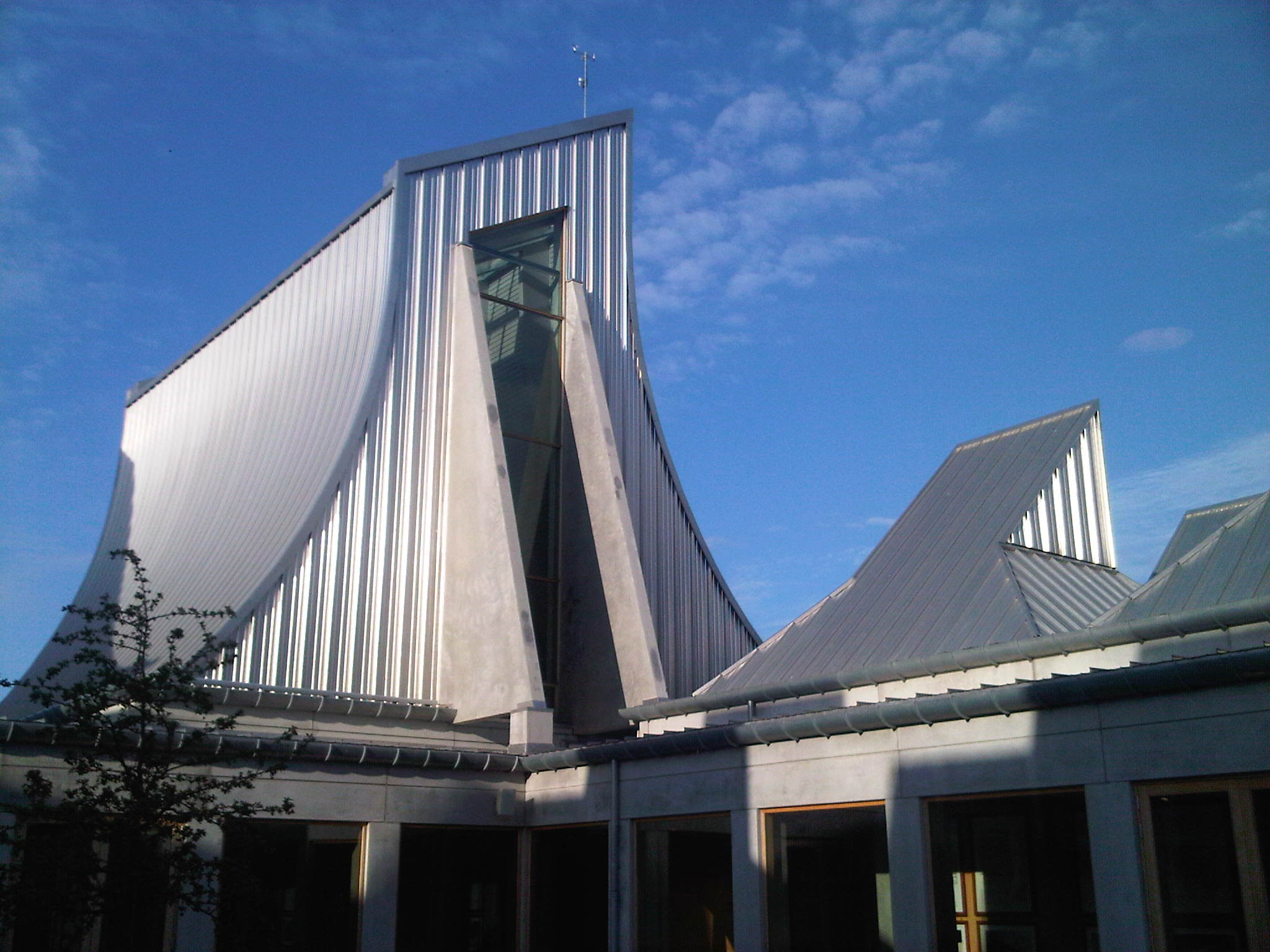 The Utzon Center in Aalborg, Denmark, designed by Jørn Utzon and inaugurated in May 2008.